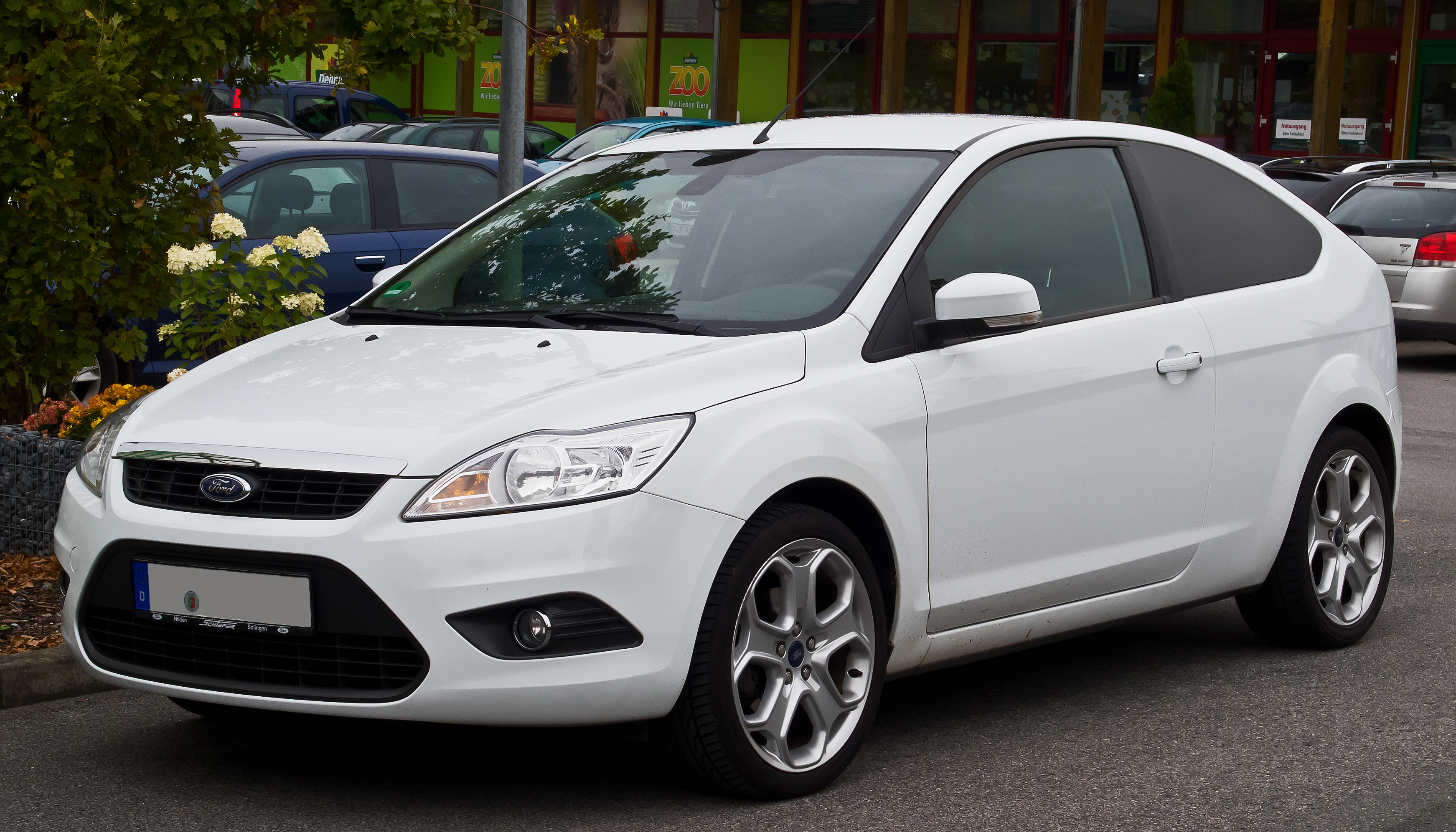 Ford Focus Style (II, Facelift)